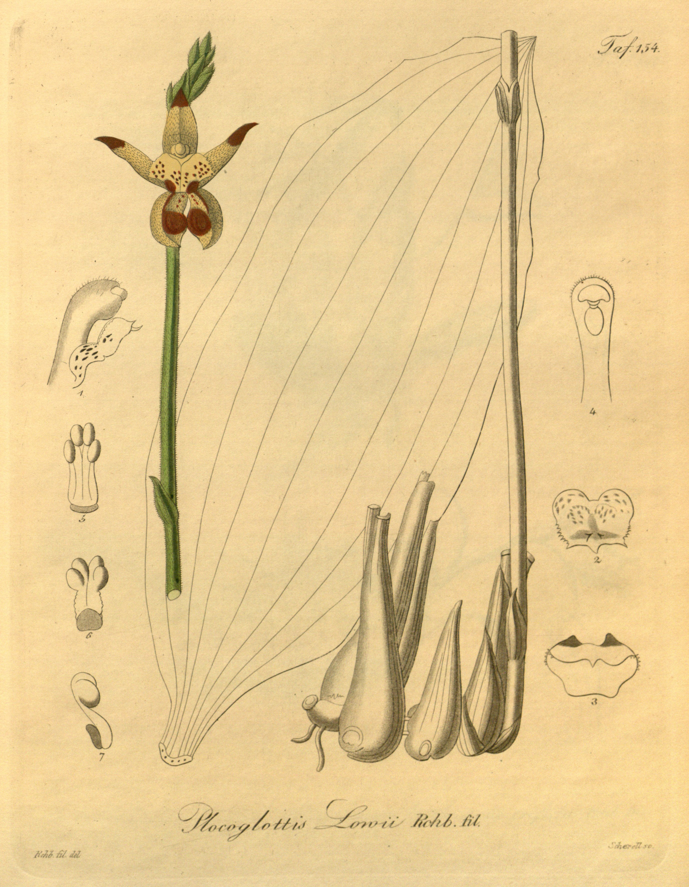 Illustration of Plocoglottis lowii